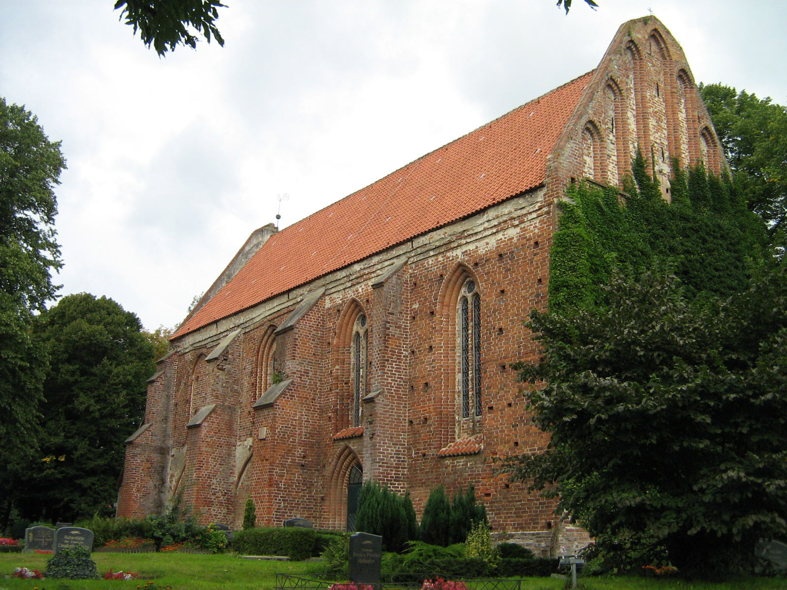 The Church of Niepars in Germany